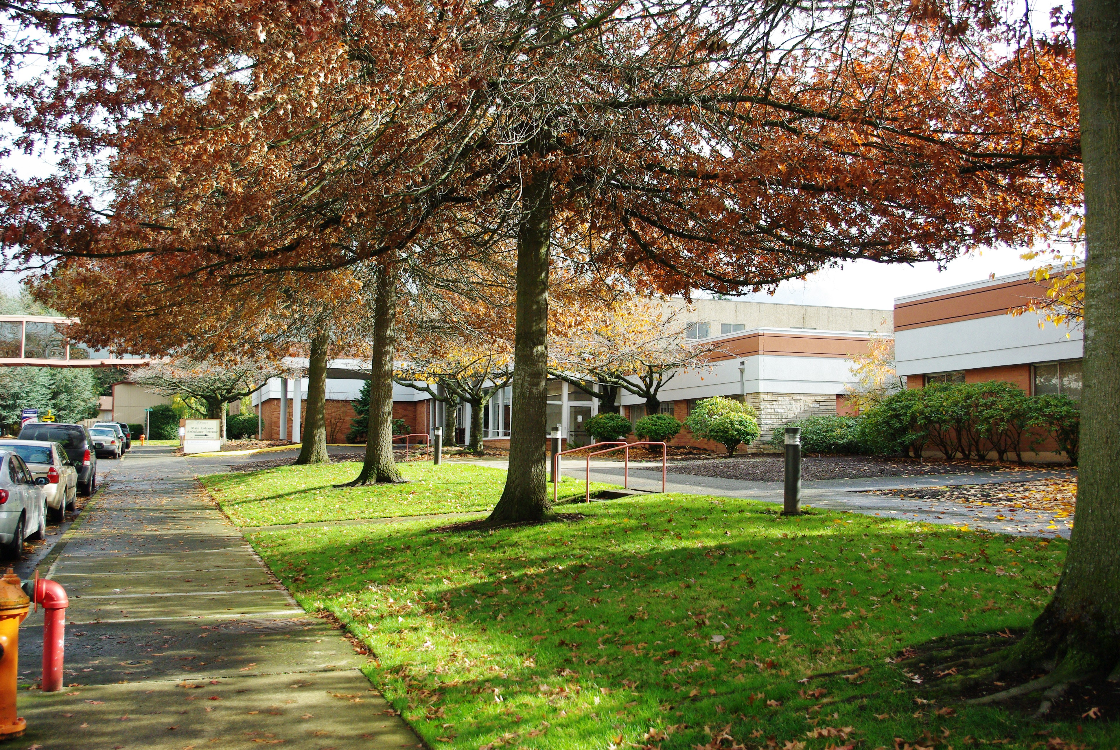 Vibra Specialty Hospital, formerly the Woodland Park Hospital in Portland, Oregon, USA.